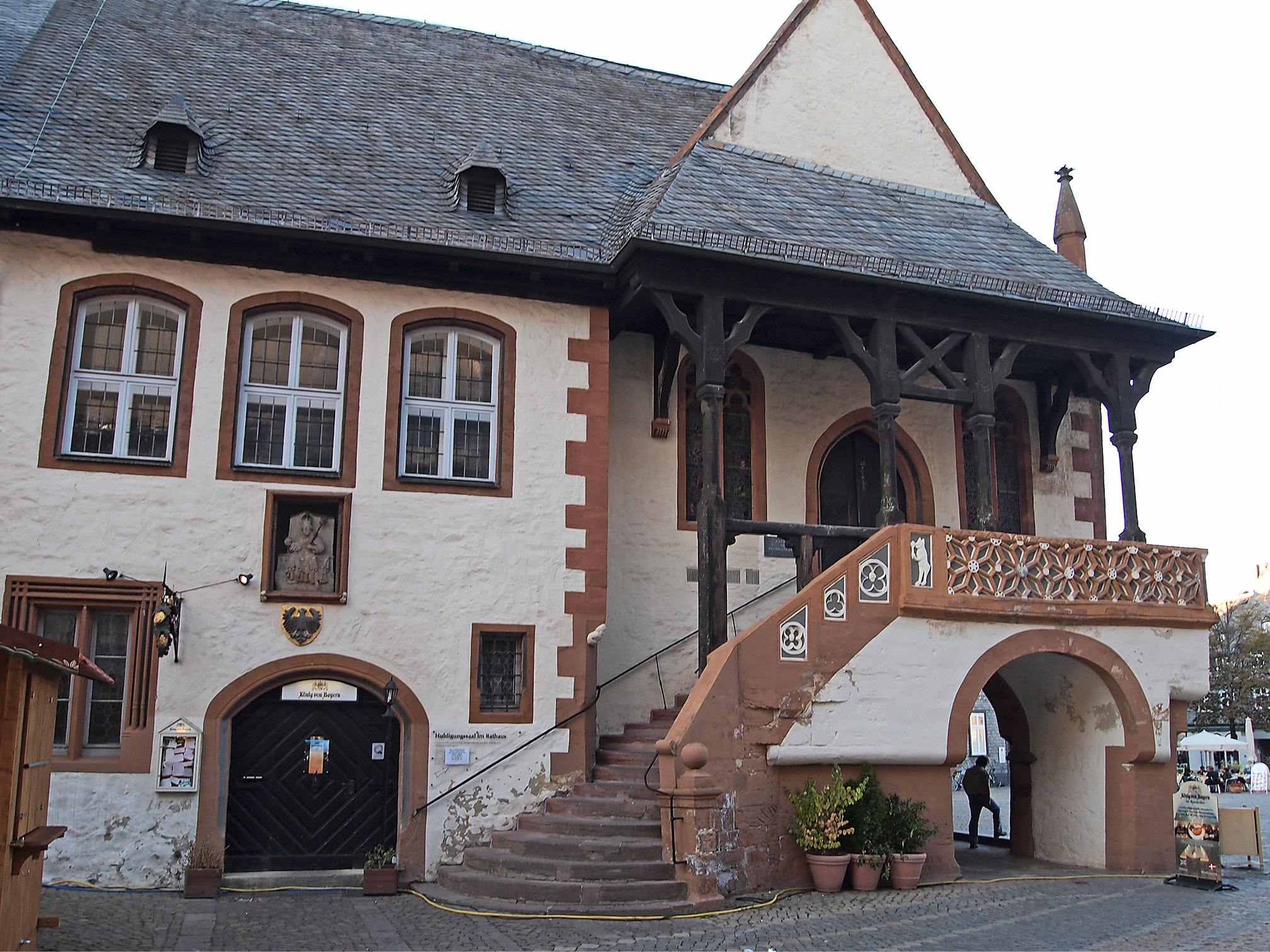 Town Hall Goslar at Harz with Hall of Homage (Lower Saxony, Germany